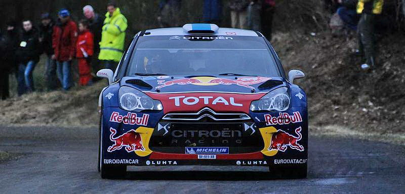 Hirvonen-Lehtinen in Monte-Carlo Raly 2012